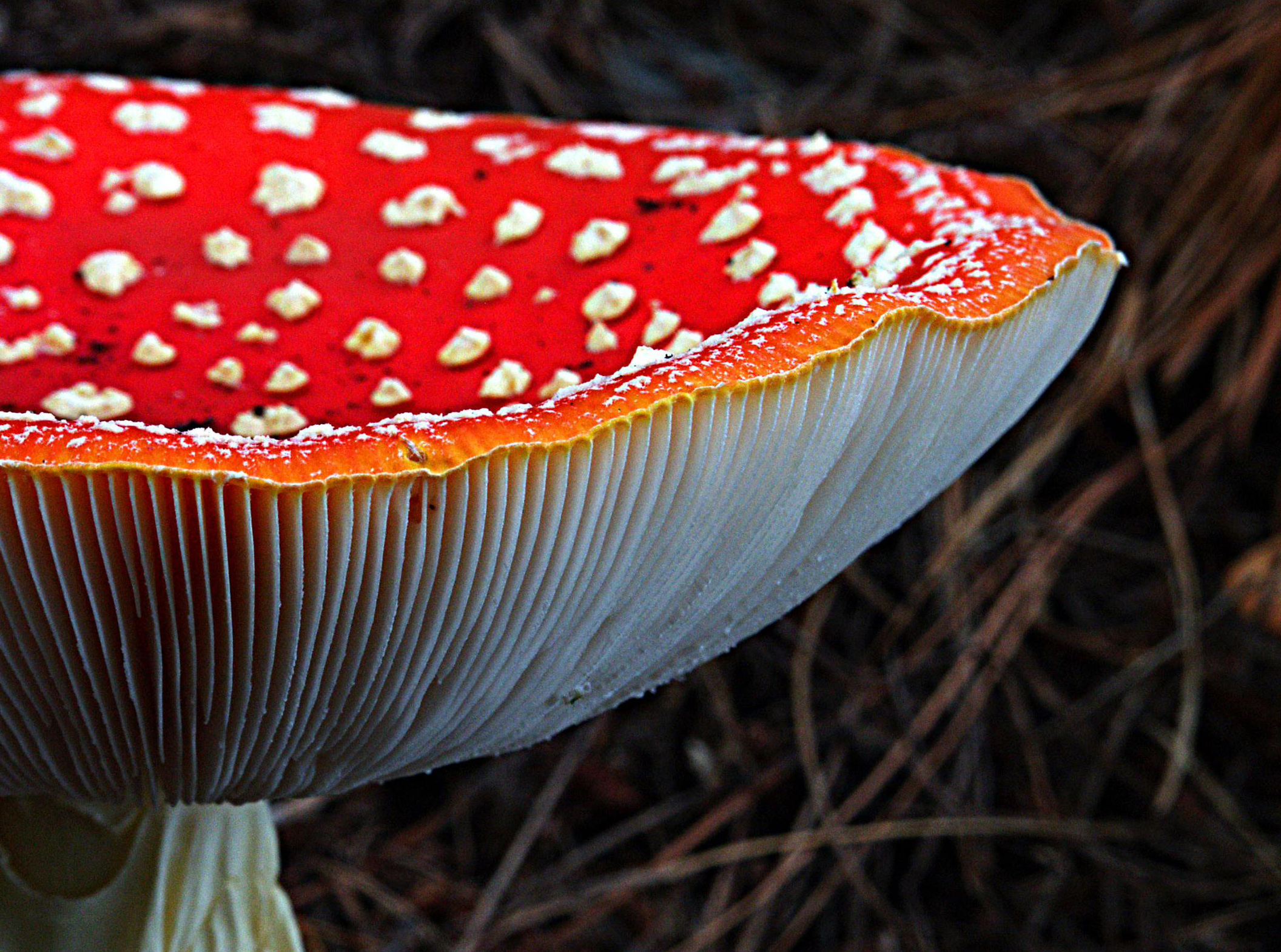 Amanita muscaria, commonly known as the fly agaric or fly amanita, is a poisonous and psychoactive basidiomycete fungus, one of many in the genus Amanita.